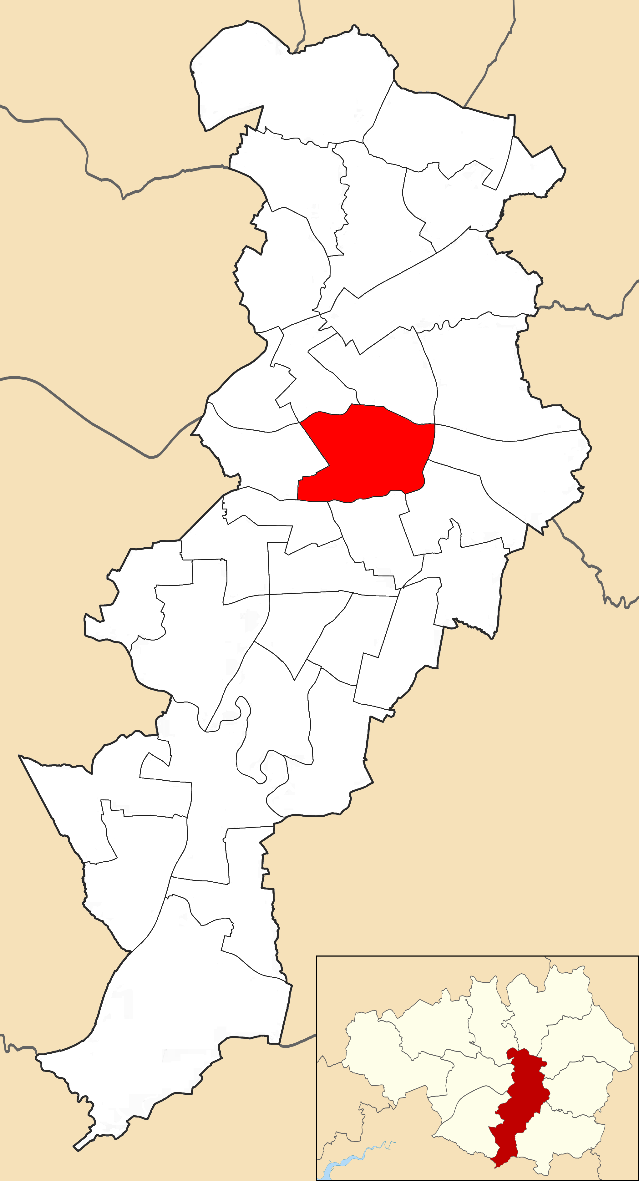 Map showing location of Ardwick ward within Manchester City Council.